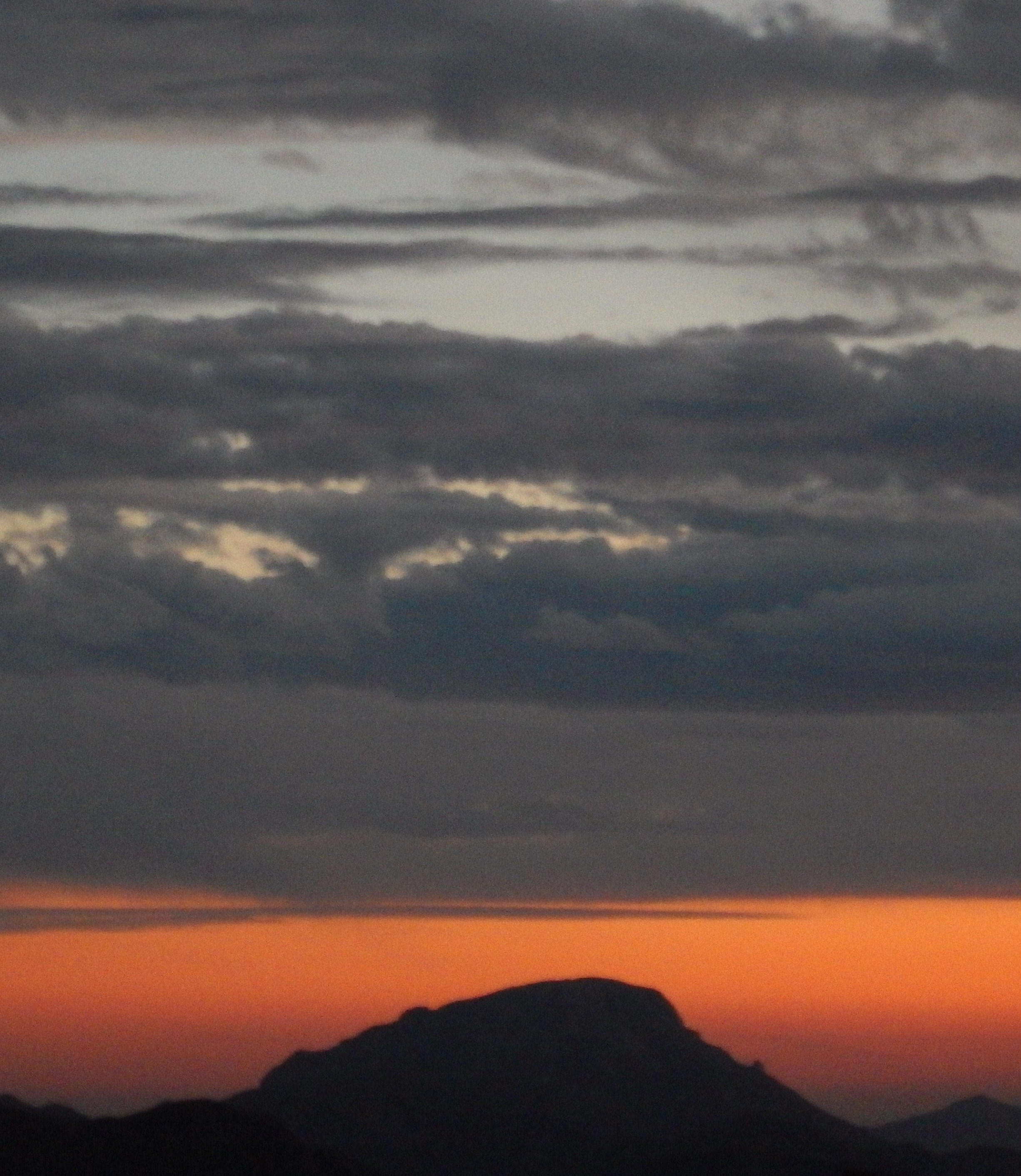 mount scuderi, Peloritani.Sicily